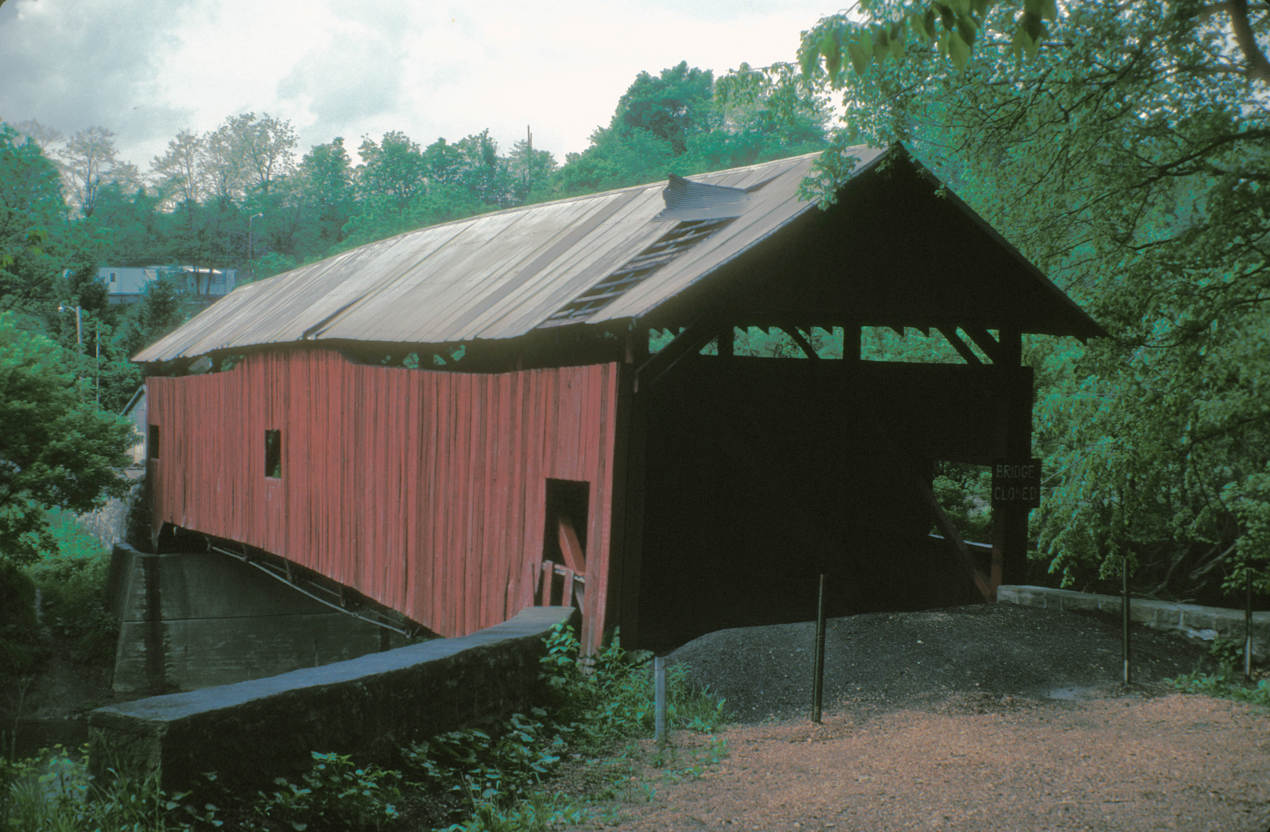 Horn or Davis or Overholtzer Covered Bridge OVER MIDDLE BRANCH OF 10 MILE CREEK; 1889; 97’ BRIDGE CLOSED BECAUSE OF DAMAGE CAUSED BY AN OVERLOADED ASPHALT TRUCK